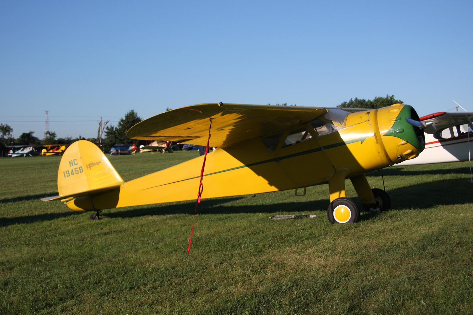 1938 Cessna C-38 C/N 411